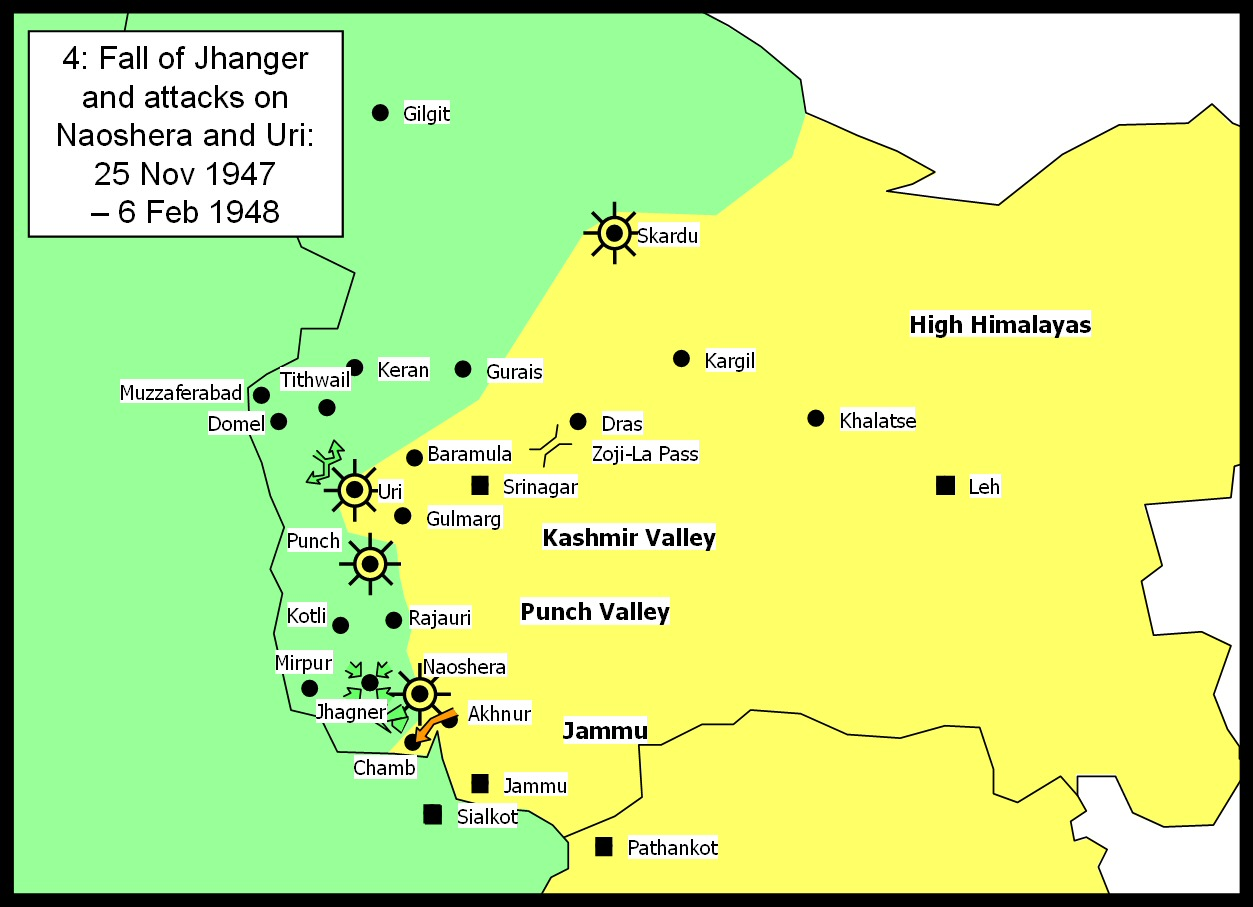 Author Mike Young